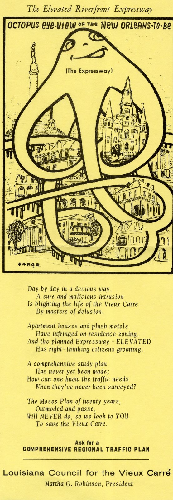 Flyer protesting the proposed elevated Riverfront Expressway at the French Quarter of New Orleans, 1960s. Top has cartoon of octopus (representing the expressway) with its tentacles around New Orleans landmarks; cartoon signed "Parge" or "Darge". Below is a poem against the expressway, and at bottom text "Ask For a COMPREHENSIVE REGIONAL TRAFFIC PLAN" and crediting the flyer to the Louisiana Council for the Vieux Carré, Martha G. Robinson, President. See Vieux Carré Riverfront Expressway